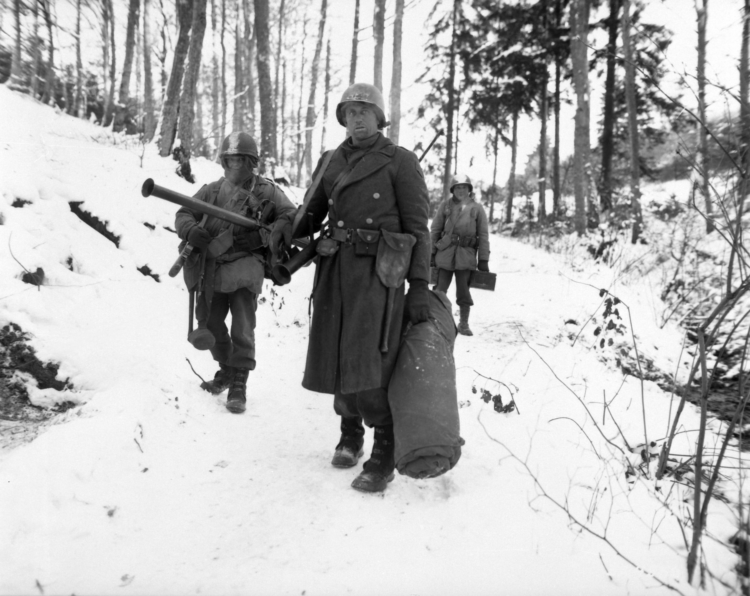 After holding a woodland position all night near Wiltz, Luxembourg, against German counter attack, three men of B Co., 101st Engineers, emerge for a rest.